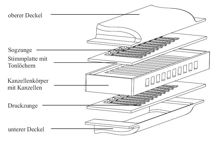 mouth organ, schematic, exploded view